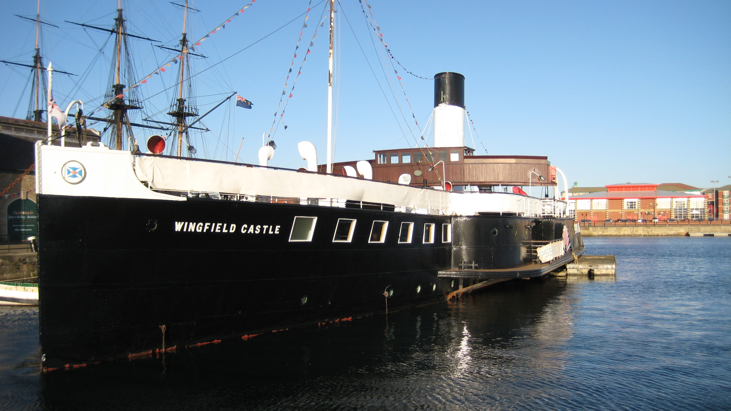 Source: Xtrememachineuk 17:12, 3 December 2007 (UTC)